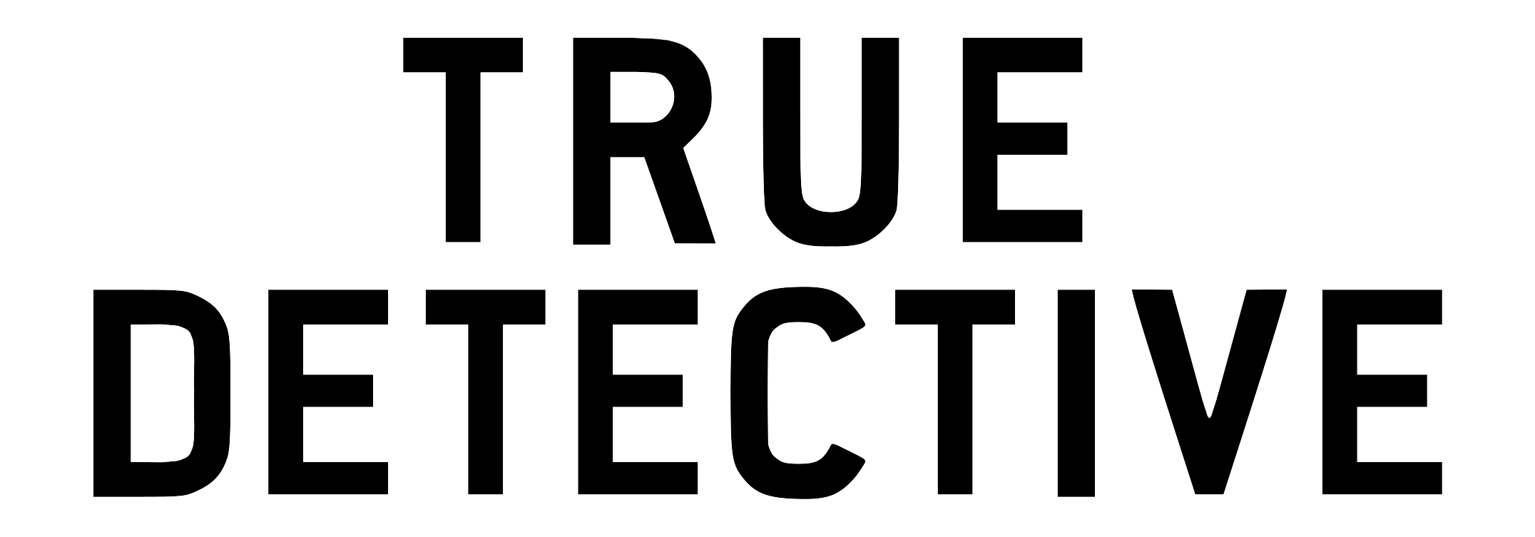 Logo of the television series True Detective